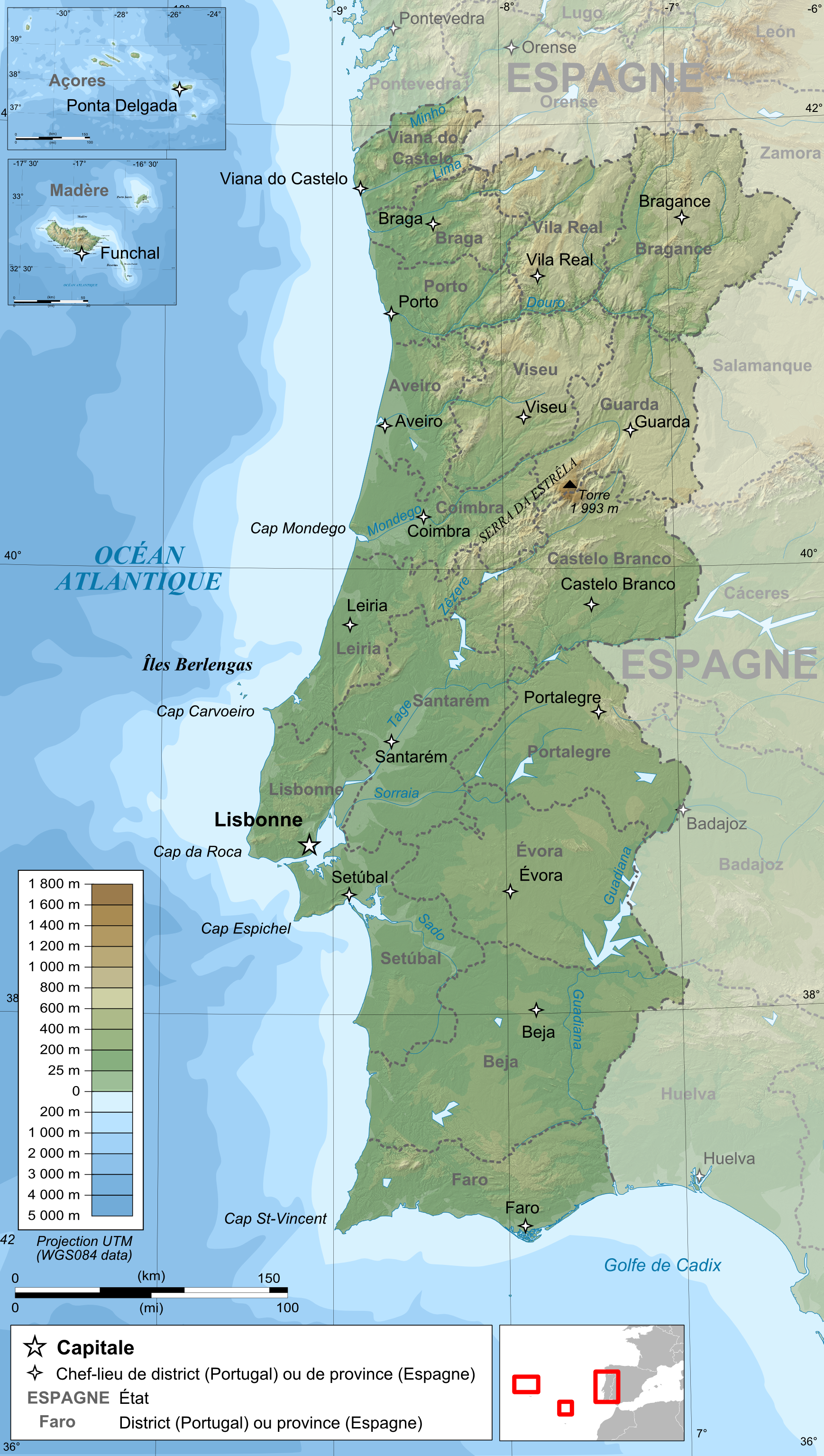 Topographic and administrative map in French of Portugal